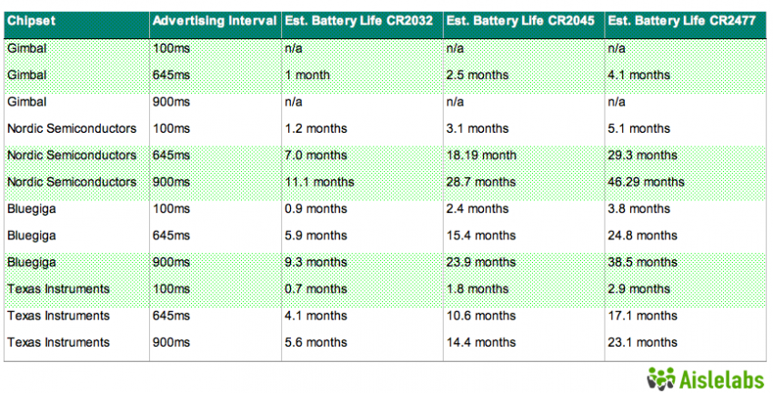 Bluetooth Low Energy chipset power consumption profiles with different configuration parameters.